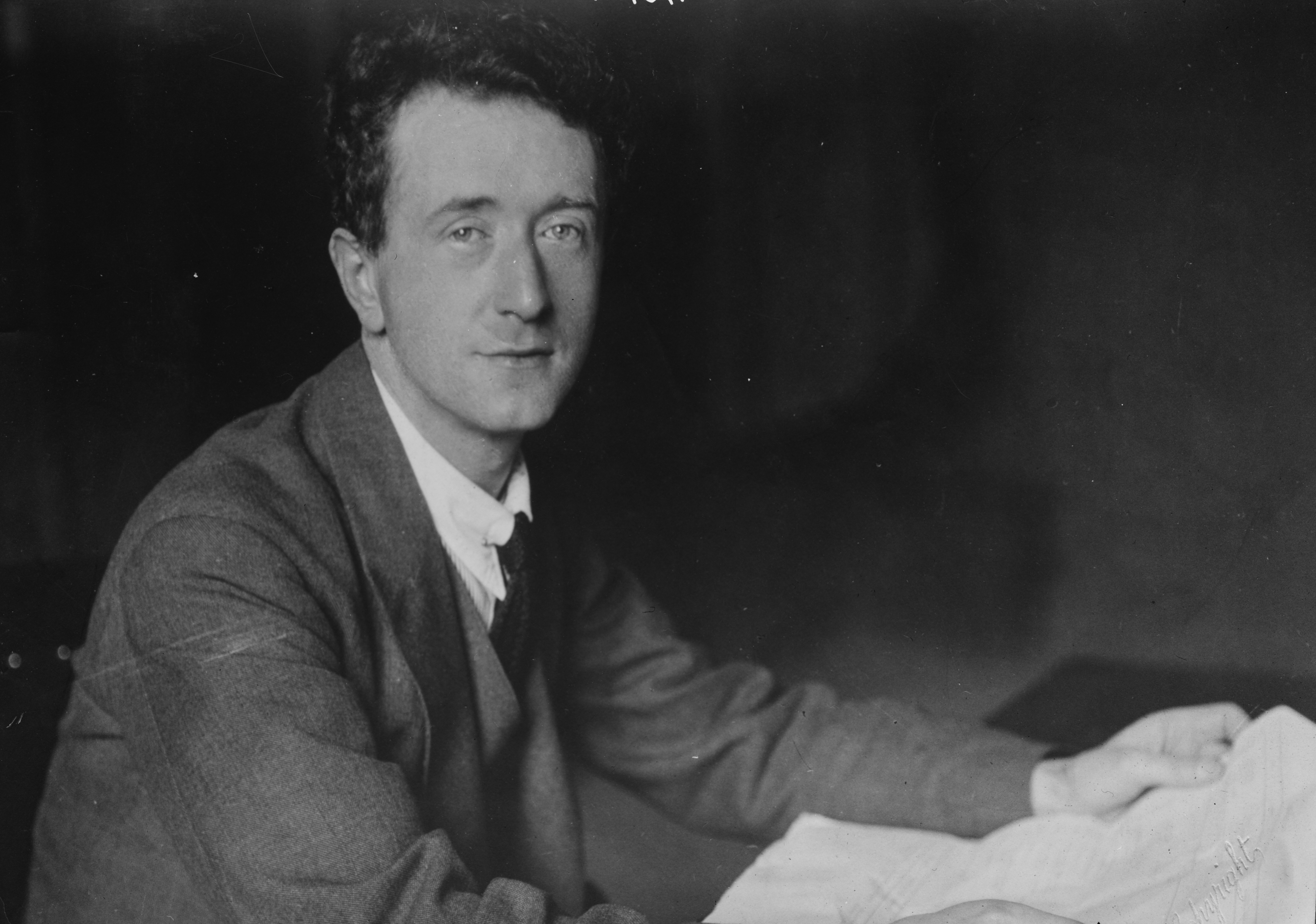 Desmond FitzGerald (1888 – 1947), an Irish revolutionary, poet and Cumann na nGaedhael politician